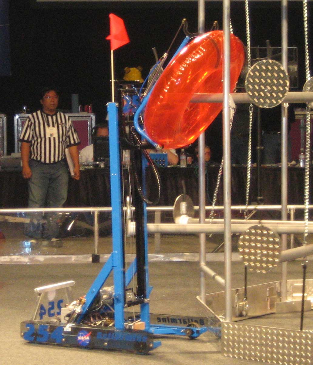 A picture of a 2007 FIRST Robotics Competition robot. The robot pictured was the winner of the Los Angeles Regional along with Teams 4 and 330.